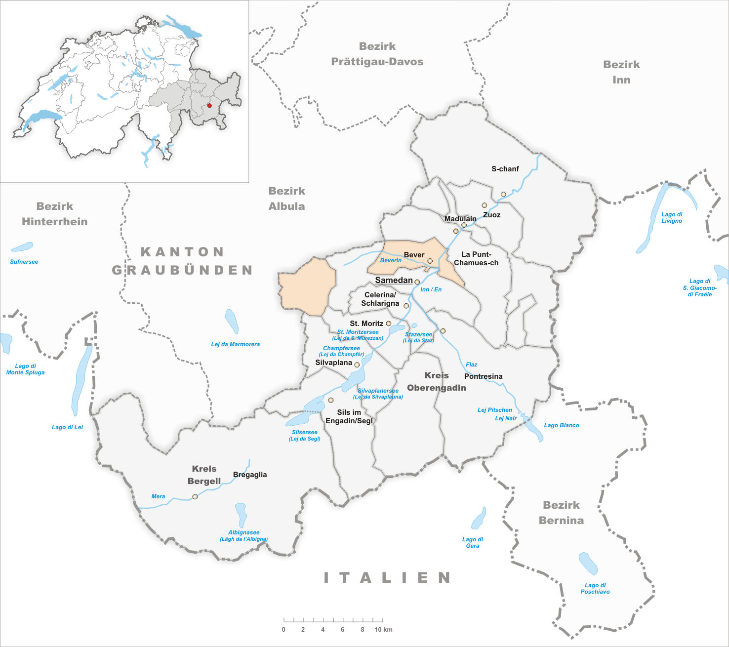 Municipality Bever